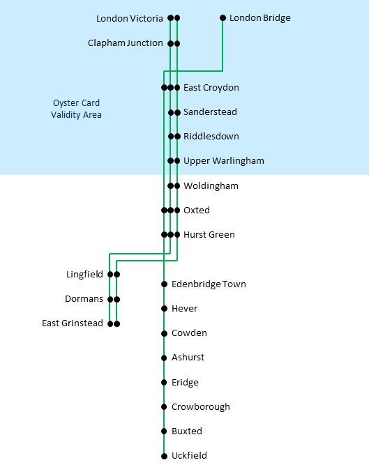 Map showing the off-peak service of services on the Oxted Line - created by myself